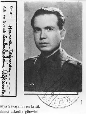 Selahattin Ülkümen during his military service at the 1930s.